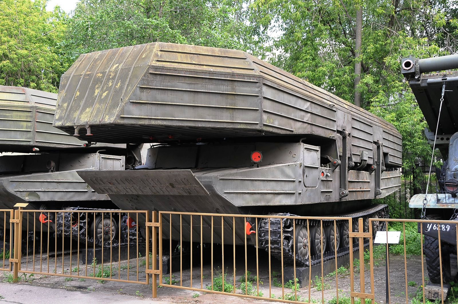 A GSP 55 in the Central Armed Forces Museum (Moscow).